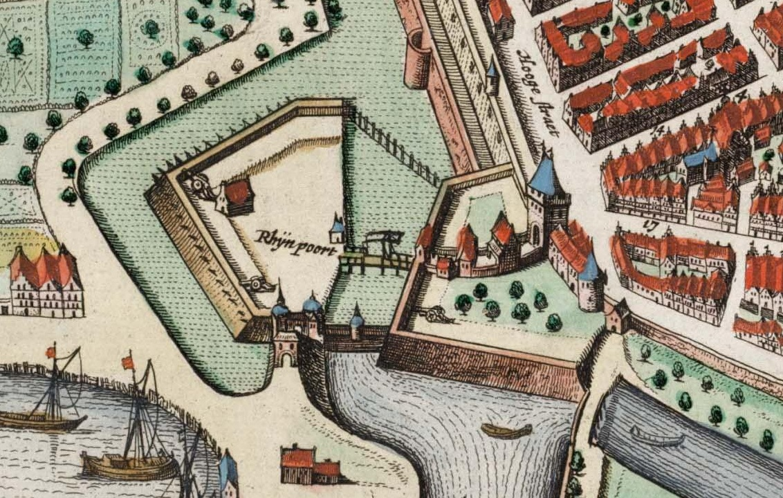 Piece of an old map with the Rijnpoort, Arnhem